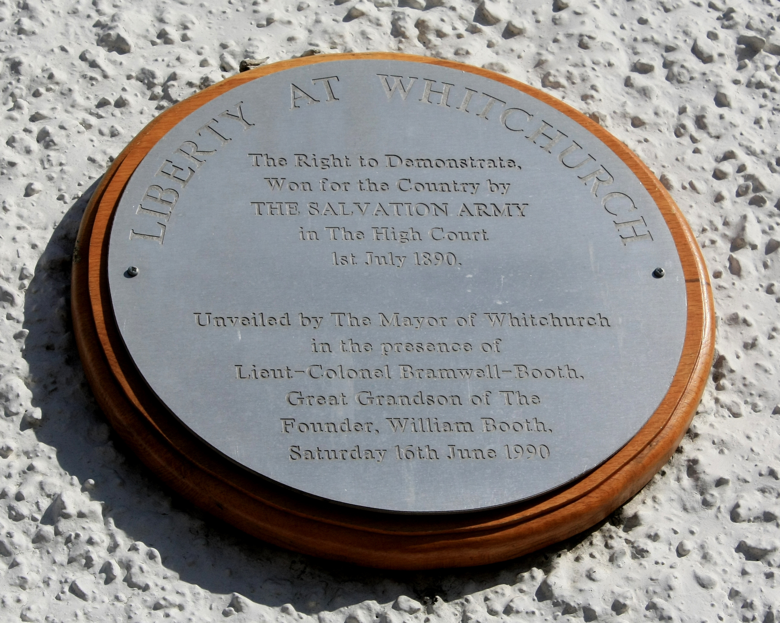 Plaque in The Square, Whitchurch, Hampshire commemorating The Right to Demonstrate won for the country in 1890.